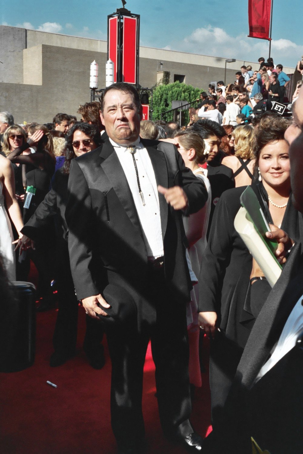 1994 Emmy Awards NOTE: Permission granted to copy, publish, broadcast or post any of my photos, but please credit "photo by Alan Light" if you can. Thanks. Scanned from the original 35MM film negative.